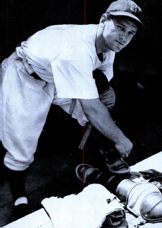 An image of Major League Baseball catcher Bruce Edwards.